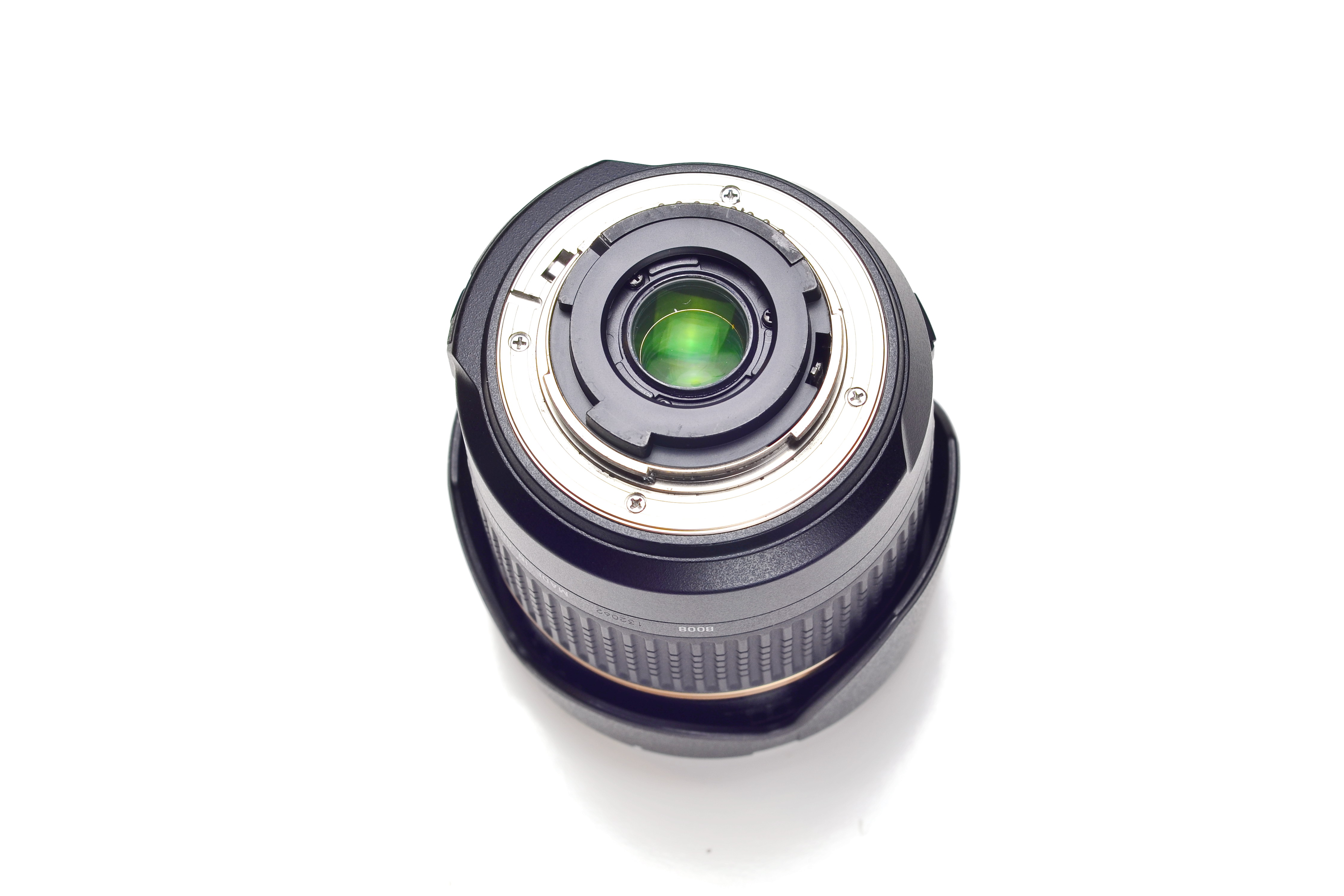 Tamron B008 18-270mm f/3.5-6.3 Di II VC LD lens (back side)